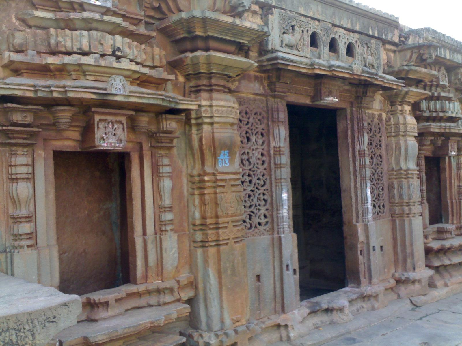 Chandramouleshwara temple Unkal Source and Author : Manjunath Doddamani, Gajendragad / Hubli, Karnataka(North), India